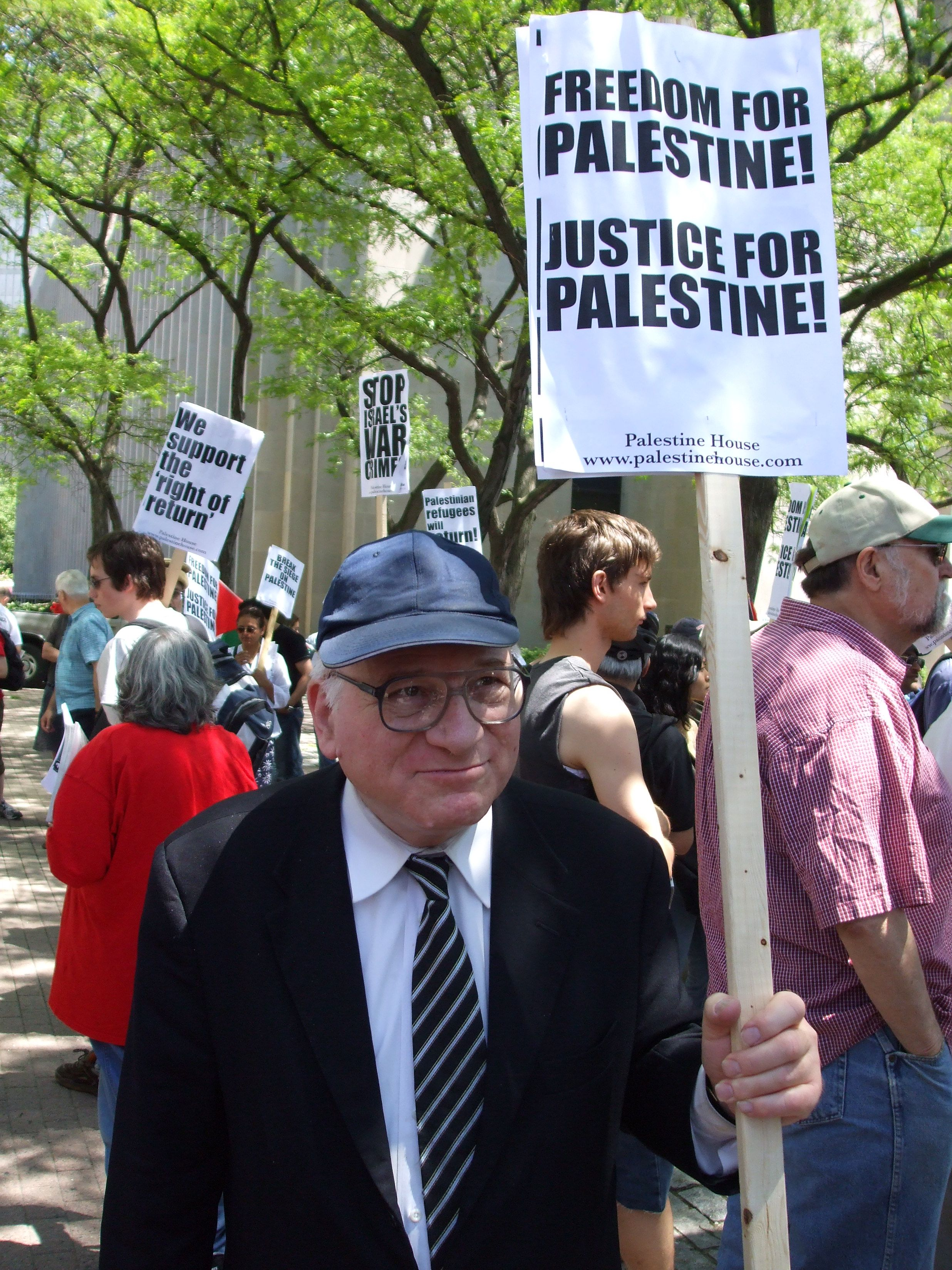 Picture of Danny Goldstick at Israeli Apartheid demonstration.